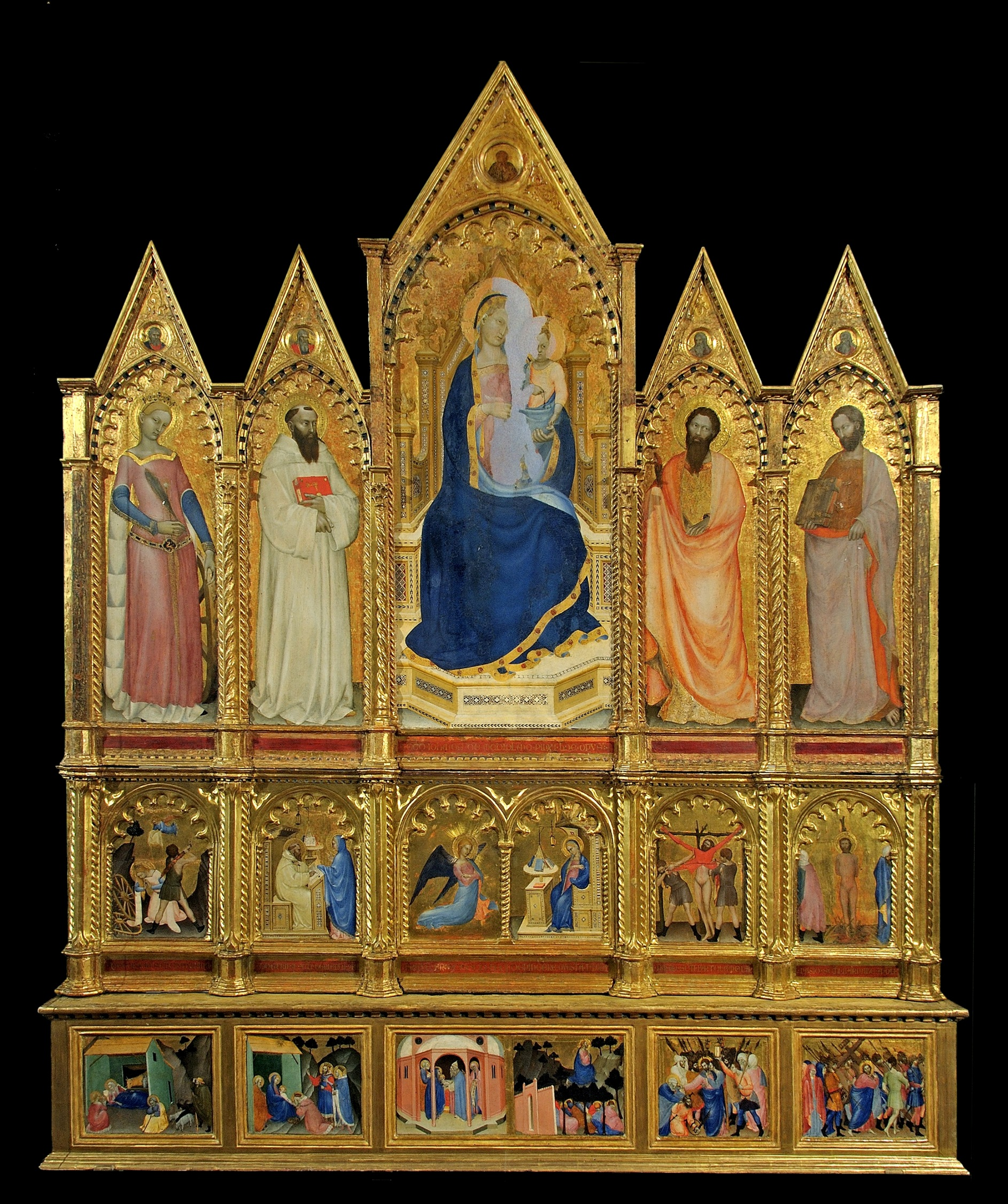 GIOVANNI DA MILANO Polyptych with Madonna and Saints Panel Civic Museum, Prato